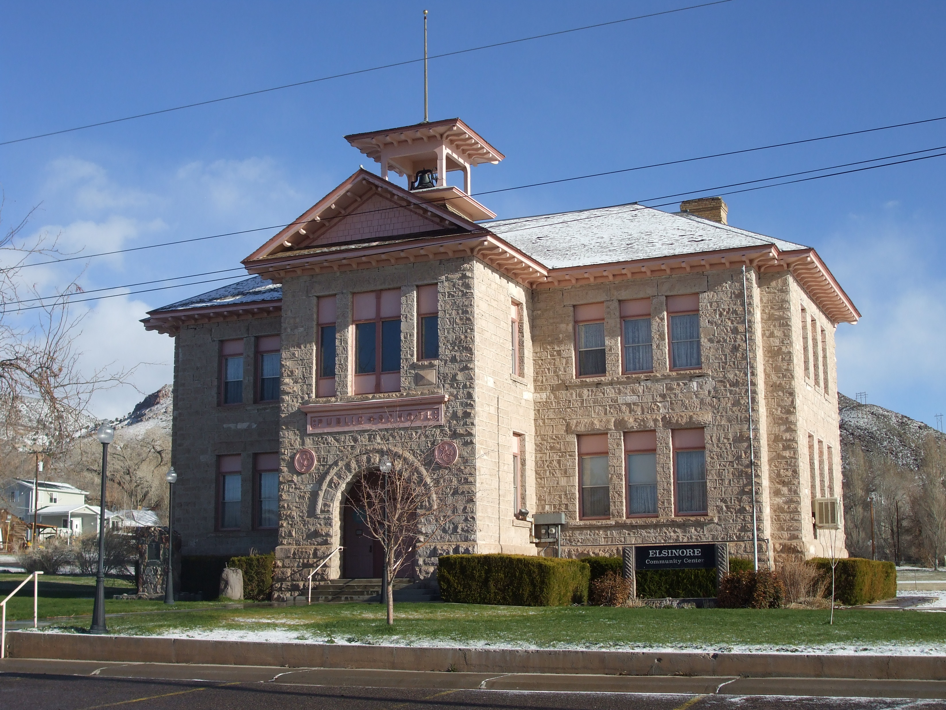 The Elsinore White Rock Schoolhouse, a historic building in Elsinore, Utah, United States.